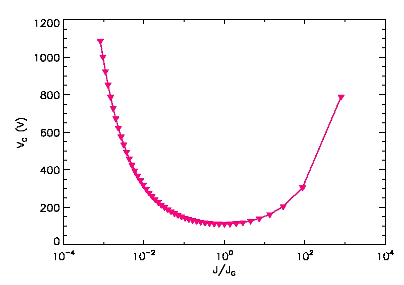 Characteristic curve in the transition between "normal" and "abnormal" glow: it is obtained from the Paschen curve for Argon (data of the parameters A,B interpolating the first Townsend coefficient taken from Lieberman and Lichtenberg, Principles of Plasma Discharges, Wiley 2005), by putting pressure=constant, and varying d according to the equation for the current density near the cathode. Ion mobility assumed=1, current dentiy normalized to the value in the minimum V_c (=voltage at the cathode).